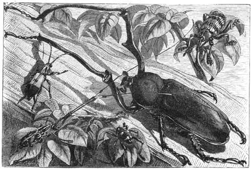 "Moluccan Beetles" engraving from The Malay Archipelago, 1869, by Alfred Russel Wallace. Center left: Xenocerus semiluctuosus = Xenocerus semiluctuosus Blanchard, 1853, ♀ Bottom left: Xenocerus sp. ?= Xenocerus sp. from the Bacan Islands, ♂ Bottom center: Arachnobas ?= Arachnobas sp. from Gilolo Top right: Eupholus sp. ?= Eupholus sp. from Ceram and Gorom Center right: Euchirus longimanus = Euchirus longimanus (Linnaeus, 1758), ♂ "The beetles figured on the plate as characteristic of the Moluccas are: 1. A small specimen of the Euchirus longimanus, or Long-armed Chafer, which has been already mentioned in the account of my residence at Amboyna (Chapter XX.). The female has the fore legs of moderate length. 2. A fine weevil, (an undescribed species of Eupholus,) of rich blue and emerald green colours, banded with black. It is a native of Ceram and Goram, and is found on foliage. 3. A female of Xenocerus semiluctuosus, one of the Anthribidae of delicate silky white and black colours. It is abundant on fallen trunks and stumps in Ceram and Amboyna. 4. An undescribed species of Xenocerus; a male, with very long and curious antenna, and elegant black and white markings. It is found on fallen trunks in Batchian. 5. An undescribed species of Arachnobas, a curious genus of weevils peculiar to the Moluccas and New Guinea, and remarkable for their long legs, and their habit of often sitting on leaves, and turning rapidly round the edge to the under-surface when disturbed. It was found in Gilolo. All these insects are represented of the natural size." (A.R. Wallace)